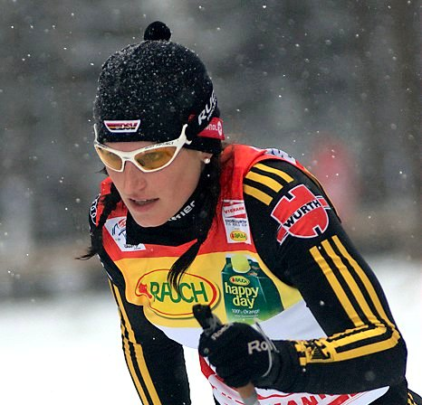 Nicole Fessel at the Tour de Ski 2010 in Oberhof